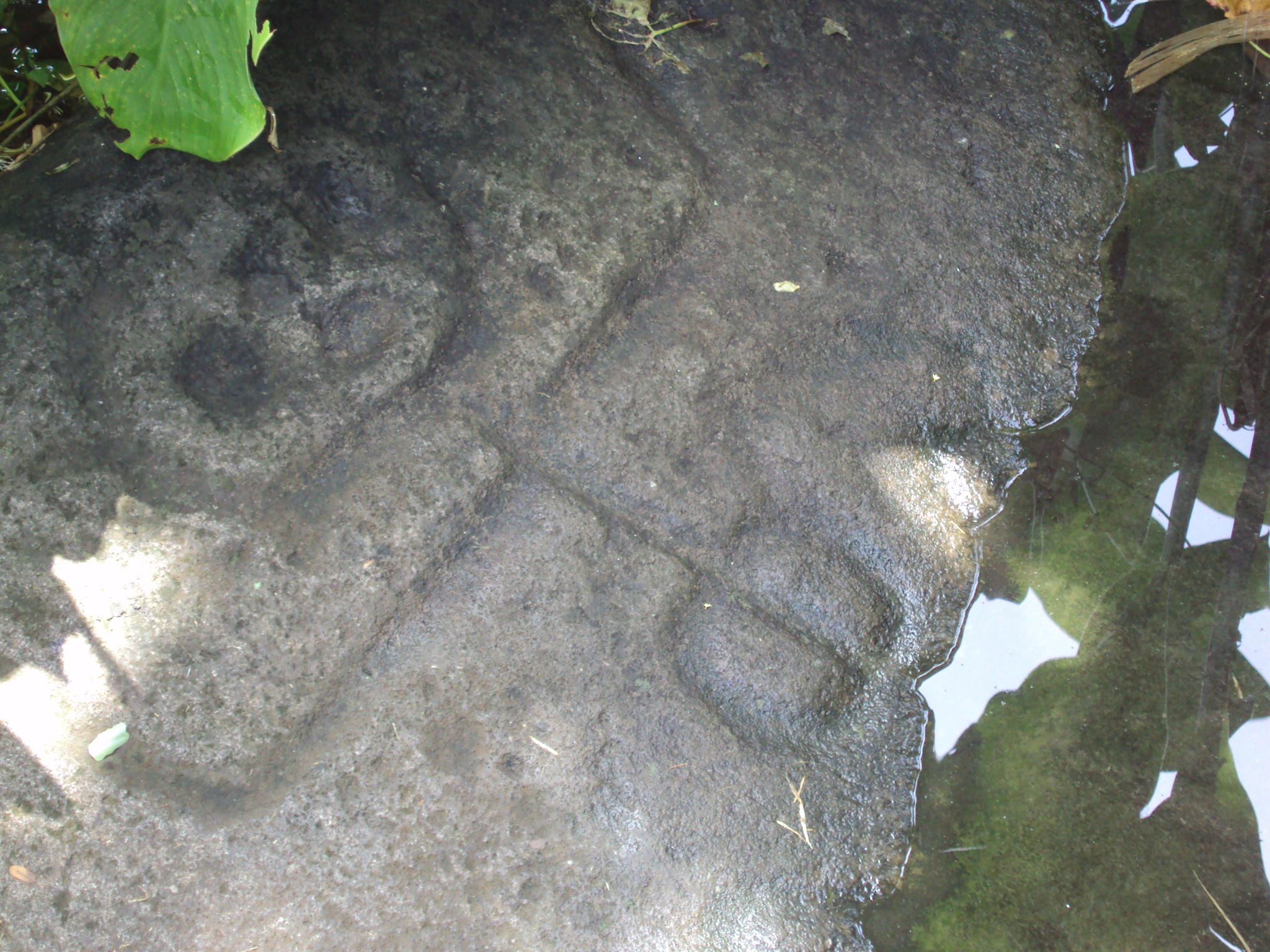 Picture of arawak carving in Guadeloupe